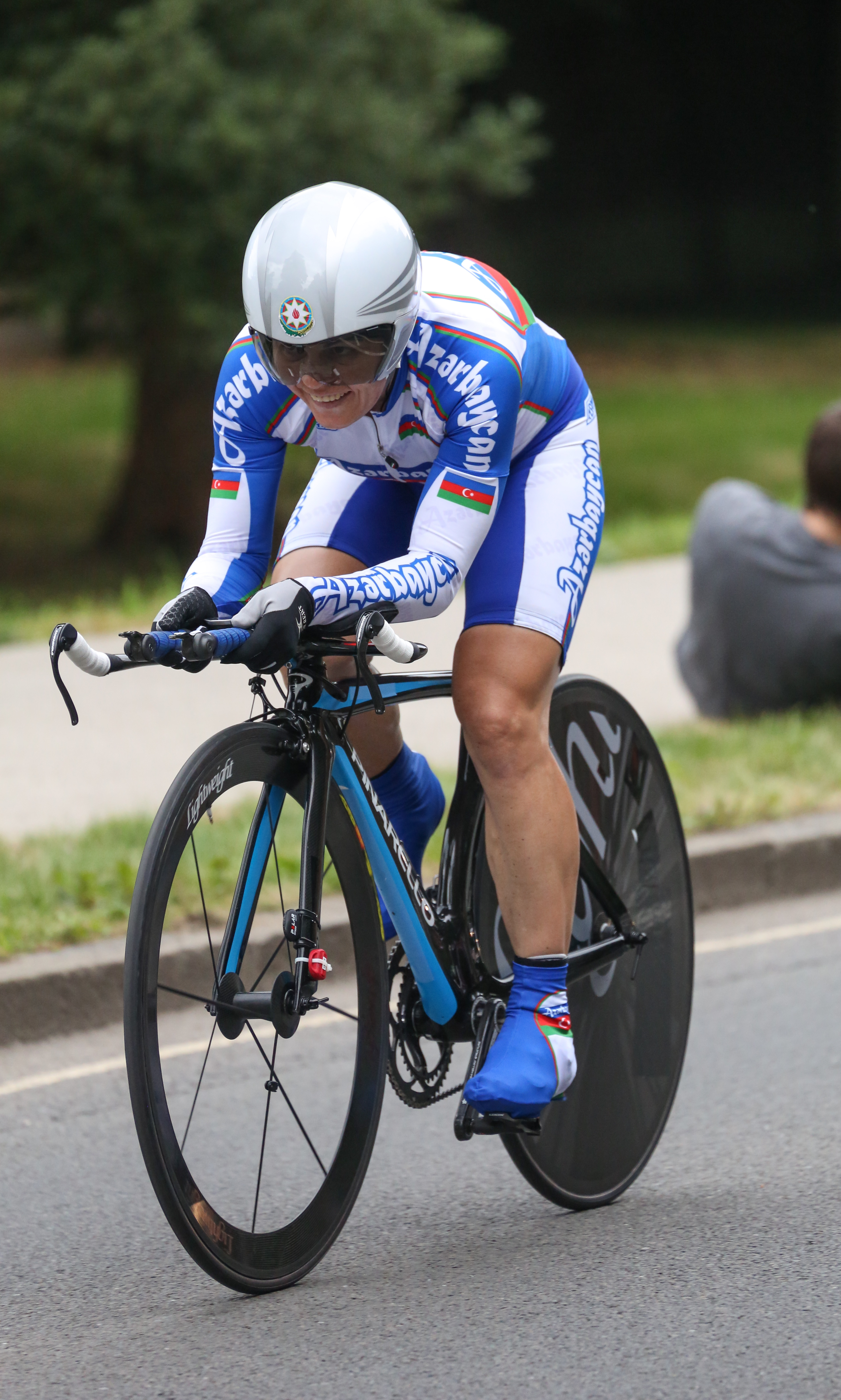 Elena Tchalykh competing in the London 2012 Women's Olympic Time Trial.